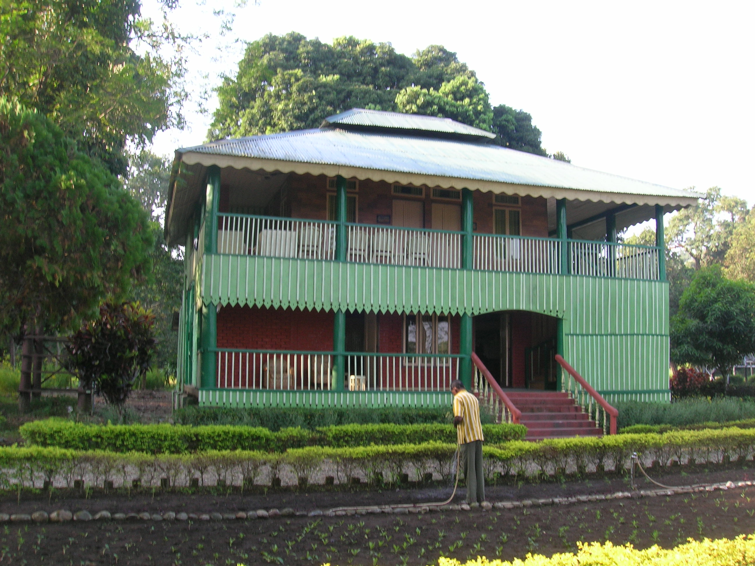 Gorumara Forest Rest House, Gorumara National Park, West Bengal, India.